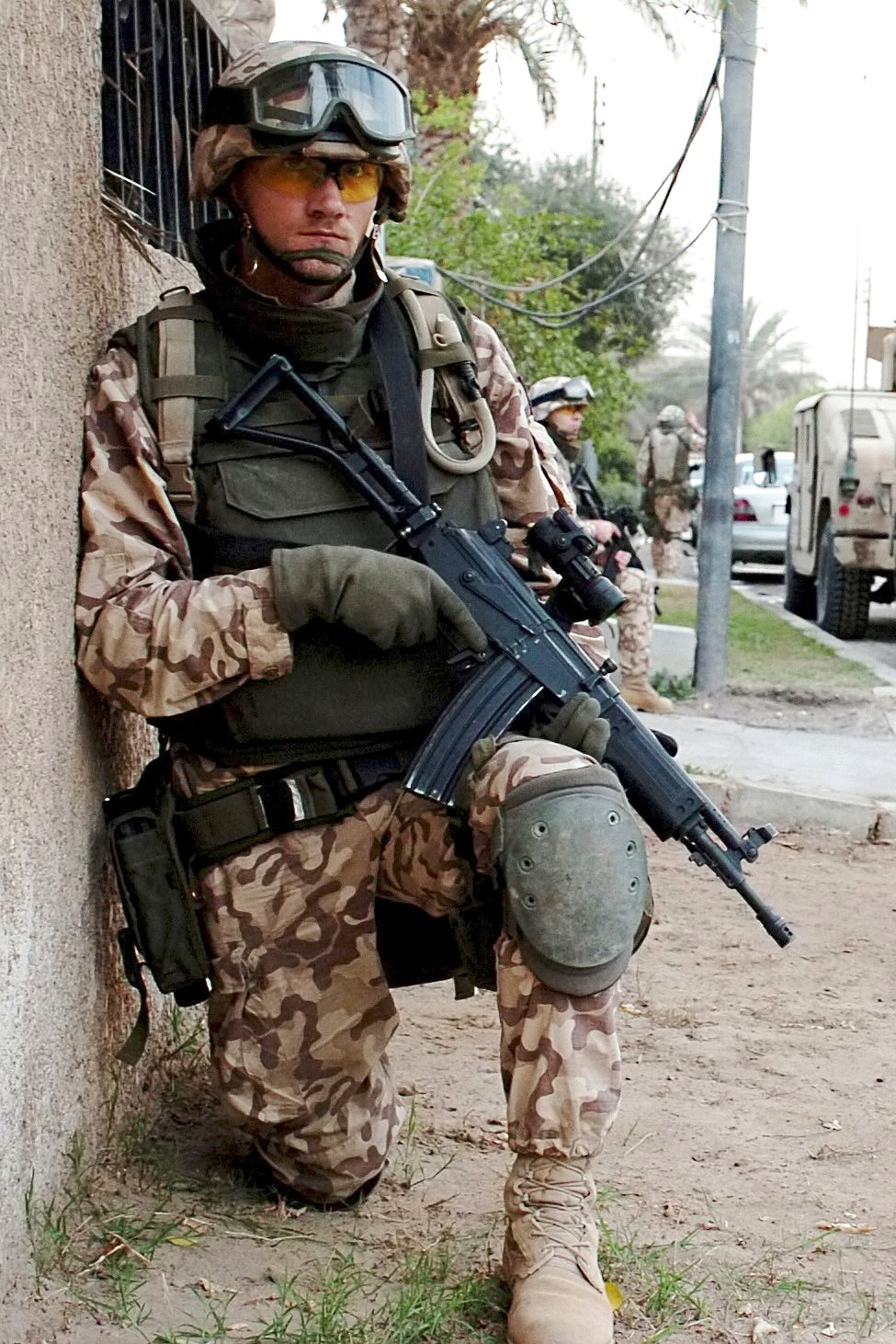 Estonian soldier with Galil SAR rifle. Estonian Army Corporal (CPL) Roman Metsatalu, assigned to the Scouts Battalion, Estonian Defense Forces, Estonian Peacekeeping Center, holds his position armed with a Vektor R6 5.56mm compact assault rifle while awaiting orders to move out on a foot patrol in Western Baghdad, Iraq. Estonian Army Soldiers are working with US Army (USA) Soldiers from 10th Mountain Division, as part of the Multi-National Corps to secure a 15-kilometer section of road in Western Baghdad, during Operation IRAQI FREEDOM.